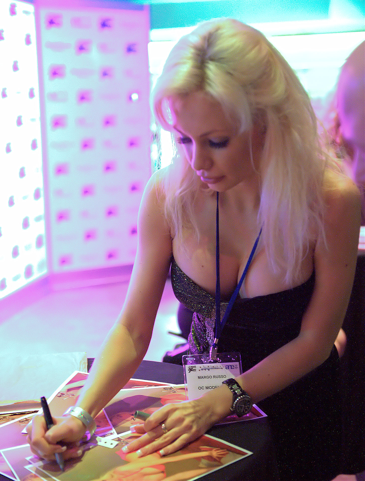 Margo Russo at AVN Adult Entertainment Expo 2012